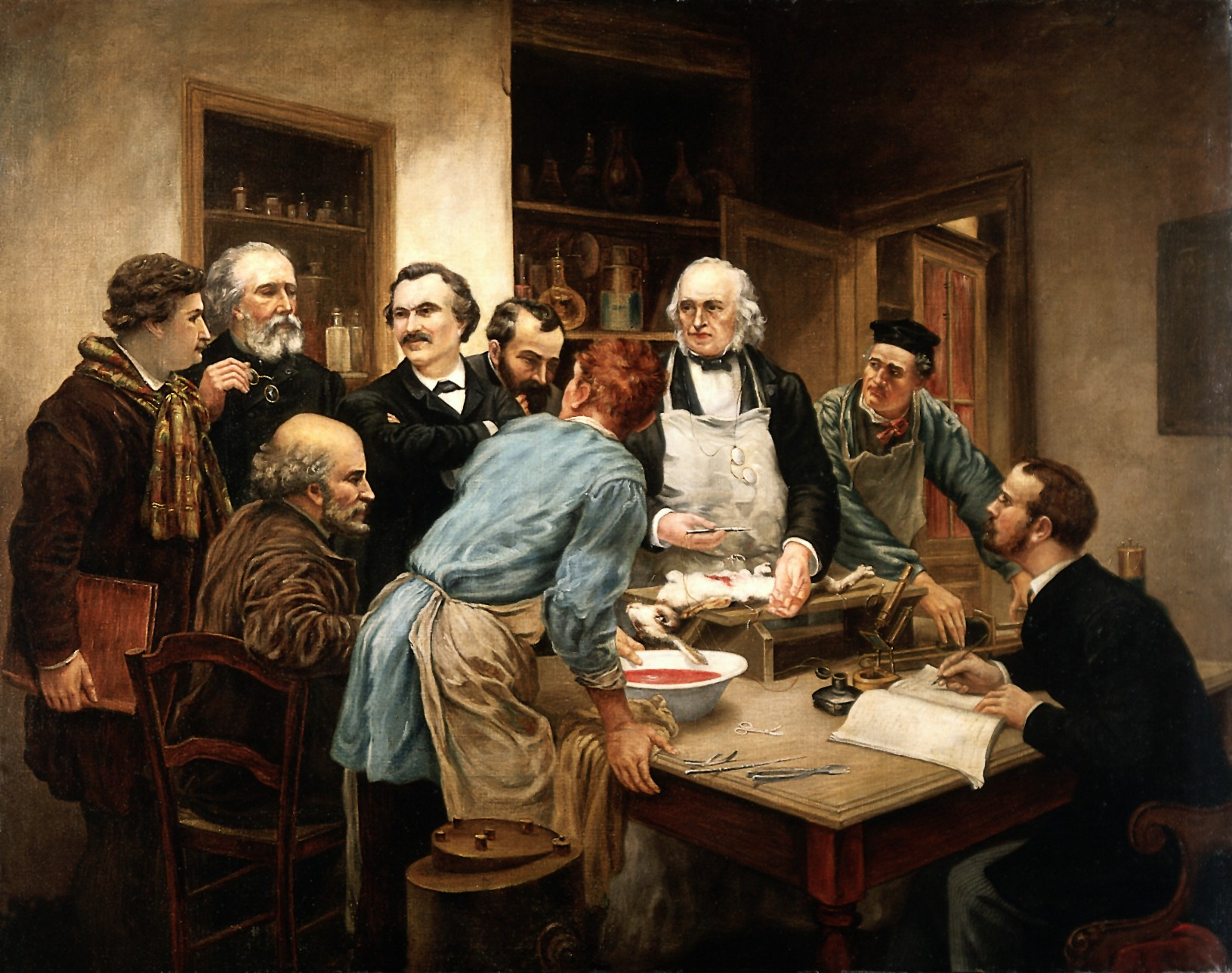 Claude Bernard and his pupils. Oil painting after Léon-Augustin Lhermitte. Iconographic Collections Keywords: Léon-Augustin Lhermitte; Vivisection; Physiology